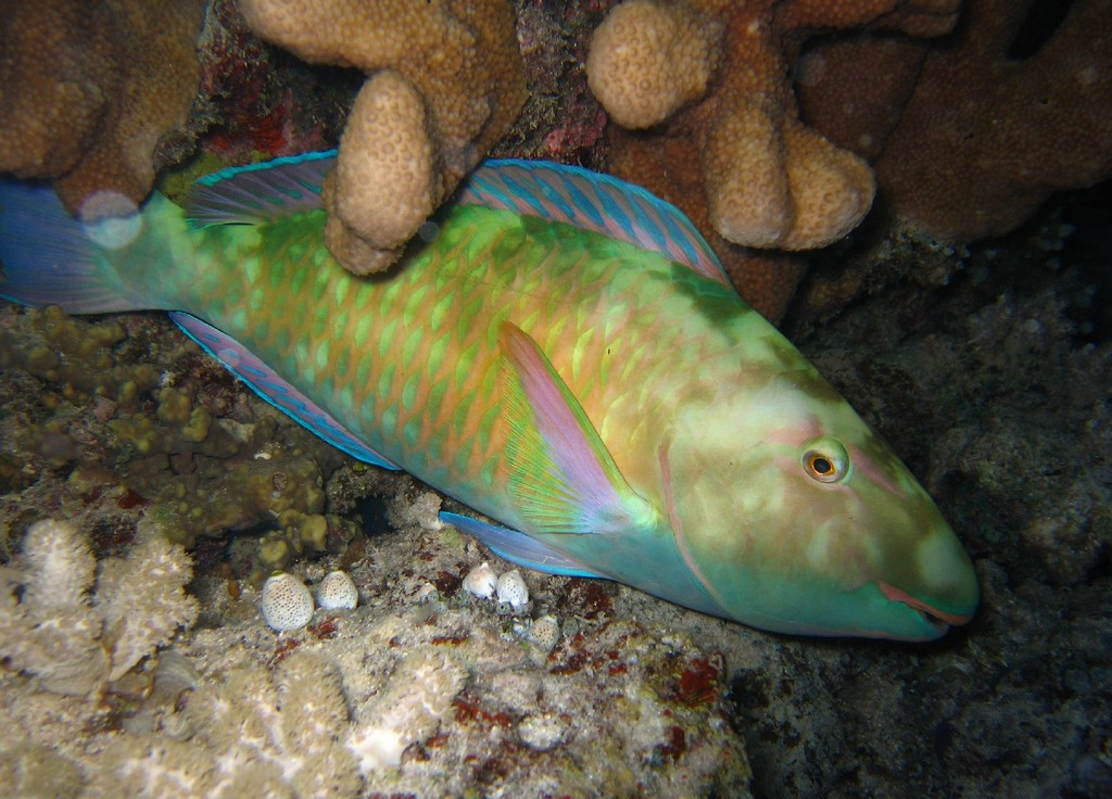 A sleeping Pacific Longnose Parrotfish (Hipposcarus longiceps). Tracey's Wonderland, Ribbon Reefs, Great Barrier Reef